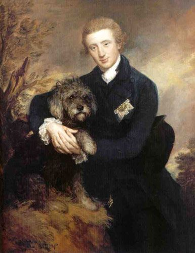 Portrait of Henry Scott, 3rd Duke of Buccleuch (1746-1812), best known as a traveling companion of Adam Smith